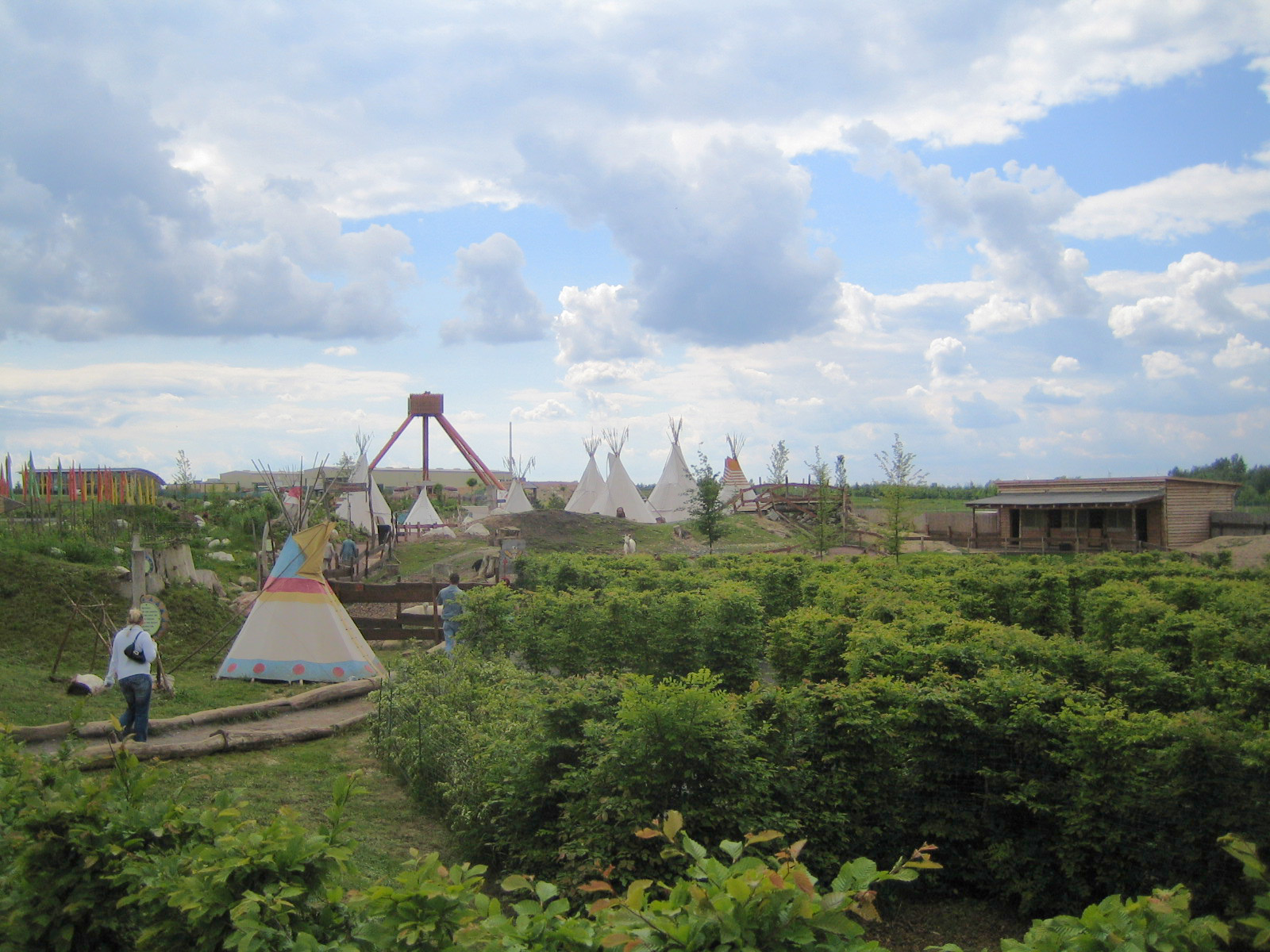 "Das Dorf der Apachen mit Streichelzoo" / Belantis / Leipzig / Germany